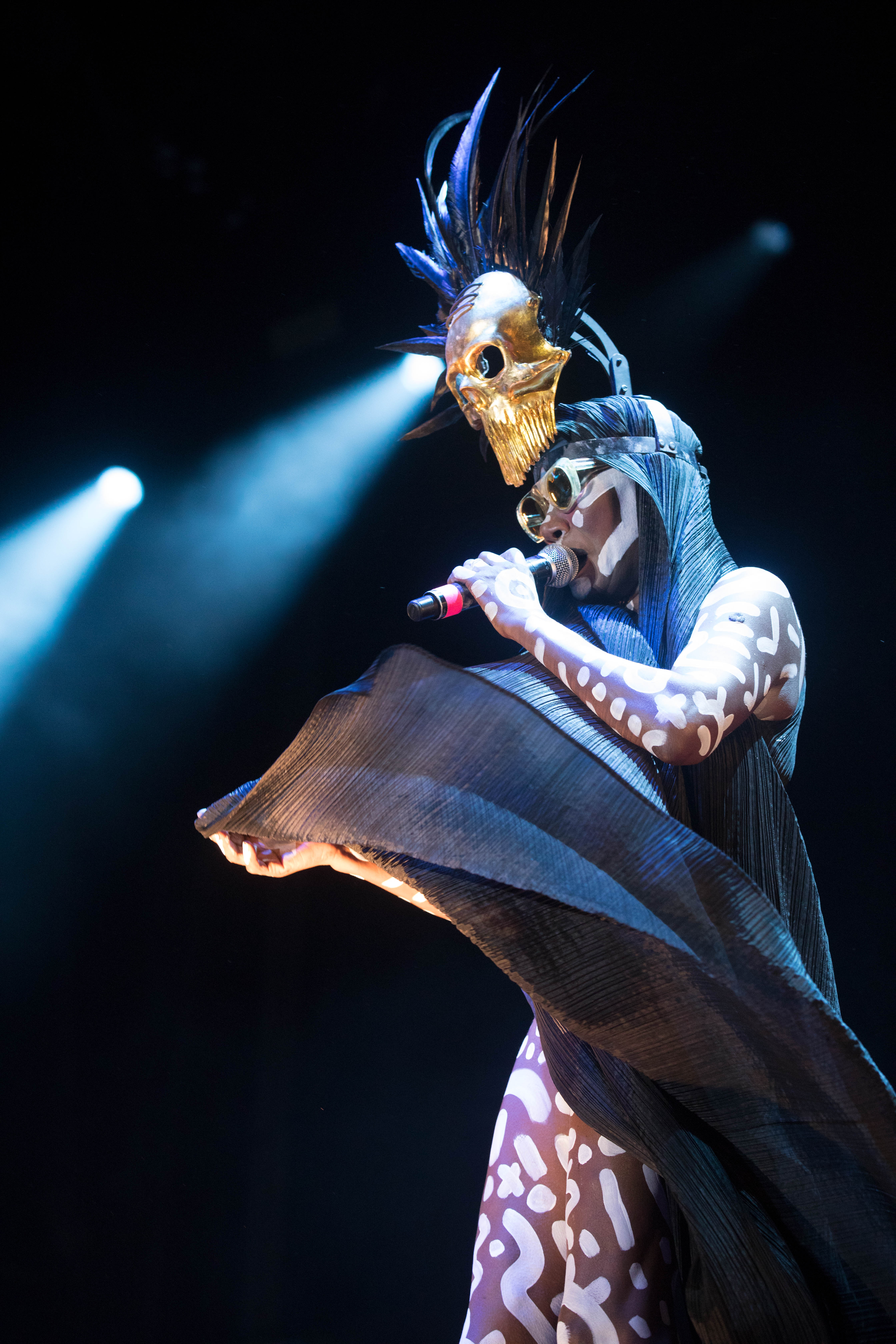 Grace Jones